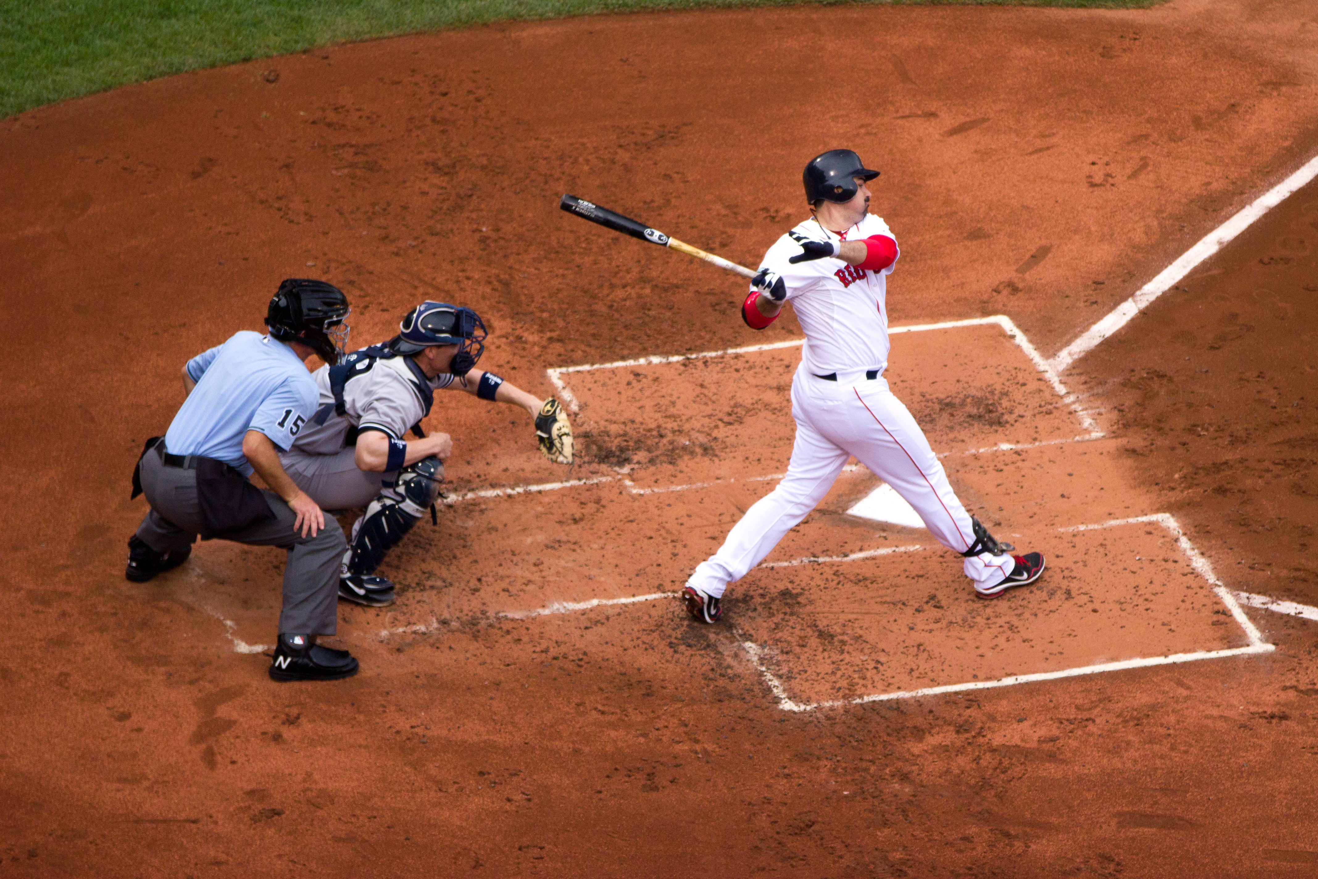 Red Sox Yankees Game Boston July 2012